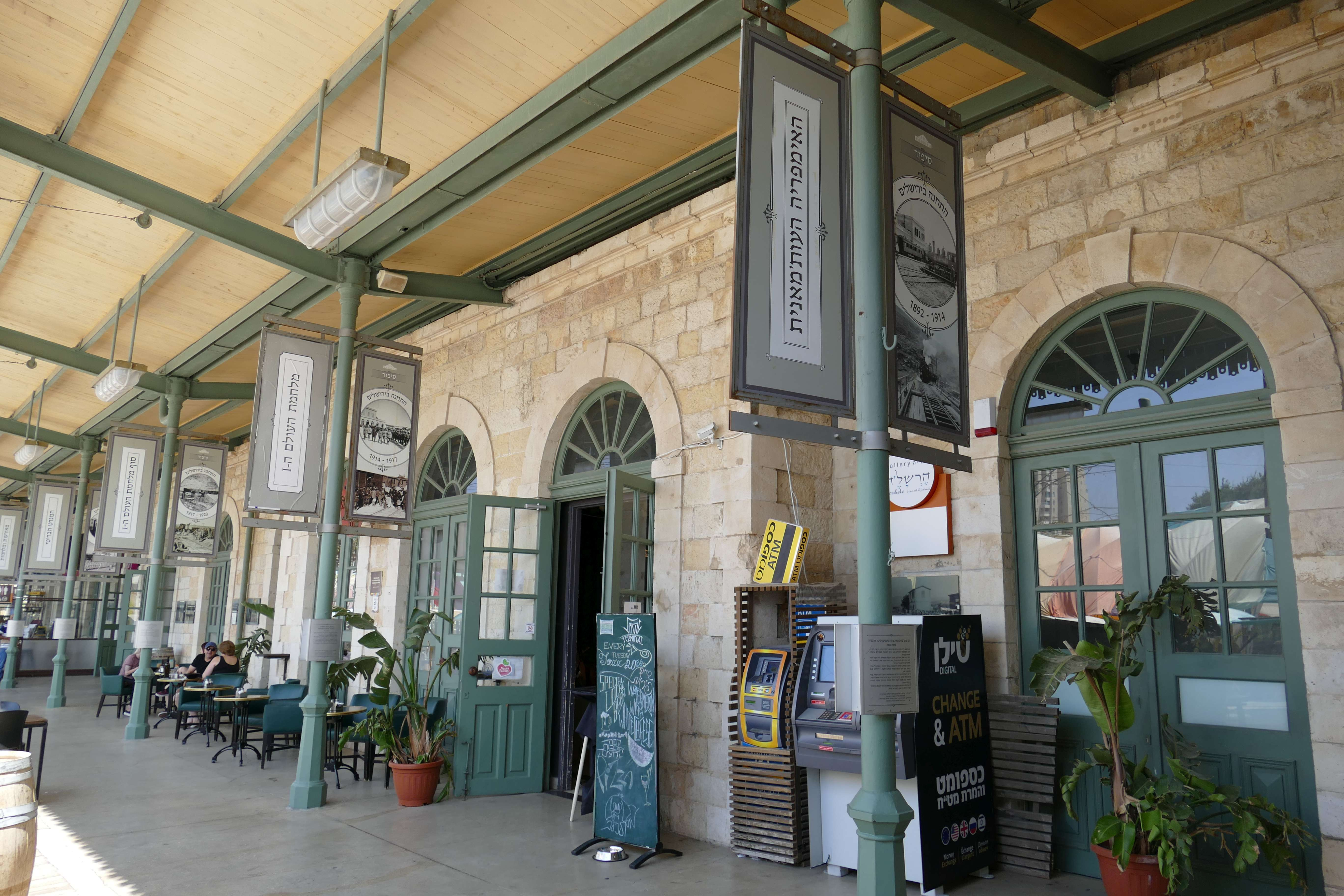 Ottoman train station and surroundings in Jerusalem, Israel.